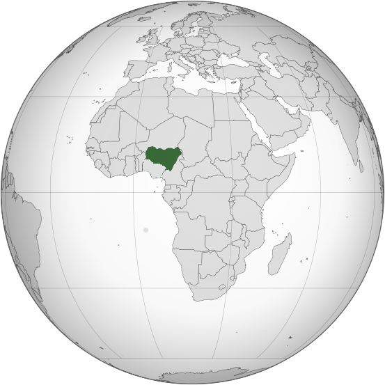 Orthographic map of Northern Nigeria